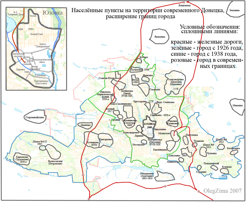 map of city history of Donetsk city (Ukraine)